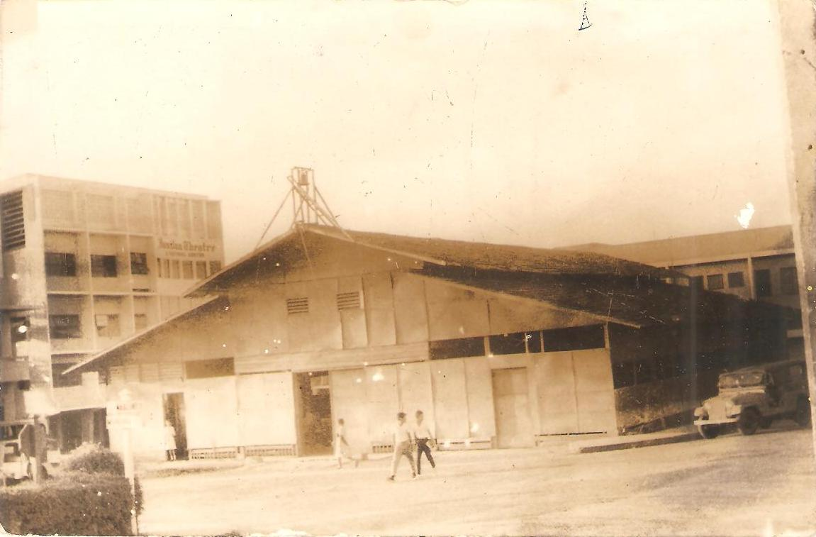 Post-war Photo of Sta. Isabel Cathedral with the Alano Bldg., in the background